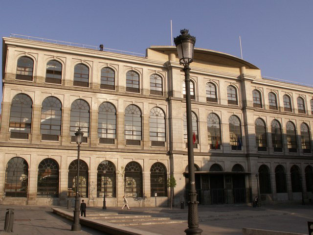 Royal Conservatory of Madrid (Spain), at 2 Calle del Doctor Mata (street) in Centro district. Building was projected in 1769 by architect Francesco Sabatini and built between 1769 and 1788 as San Carlos Hospital. It was remodeled as a conservatory from 1987 to 1990.